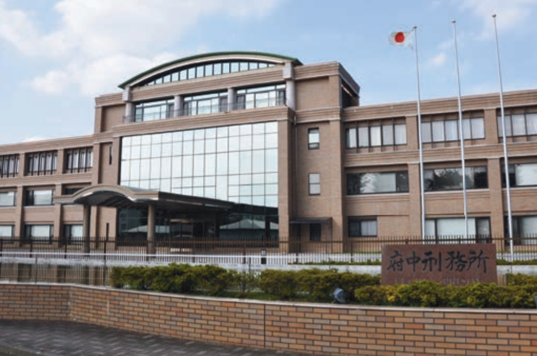 Fuchu Prison in Tokyo, Japan